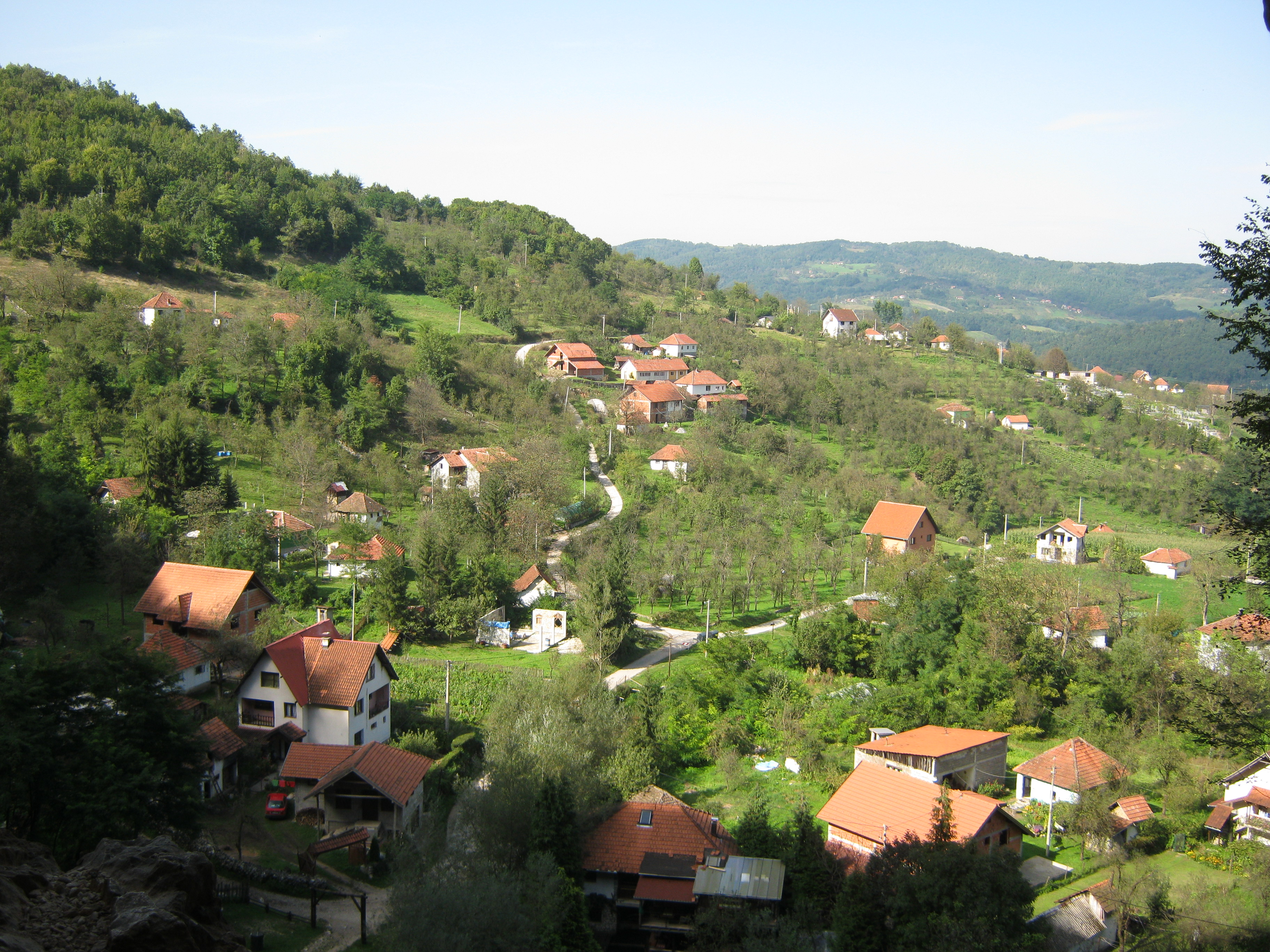 Potpeće is a village located in the Užice municipality of Serbia. The village lies at the foothills of Drežnička Gradina mountain. Spectacular cave Potpećka pećina, with the entrance of 50 m high, lies at the outskirts of the village.